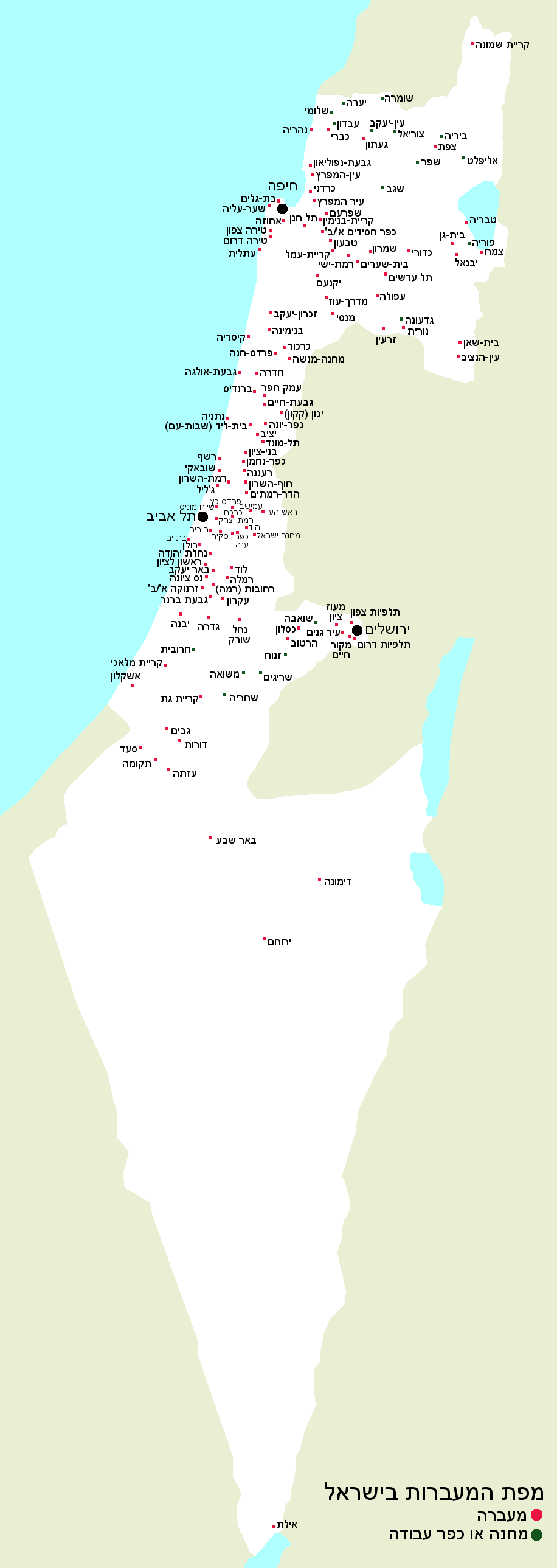 Map of Maabarot